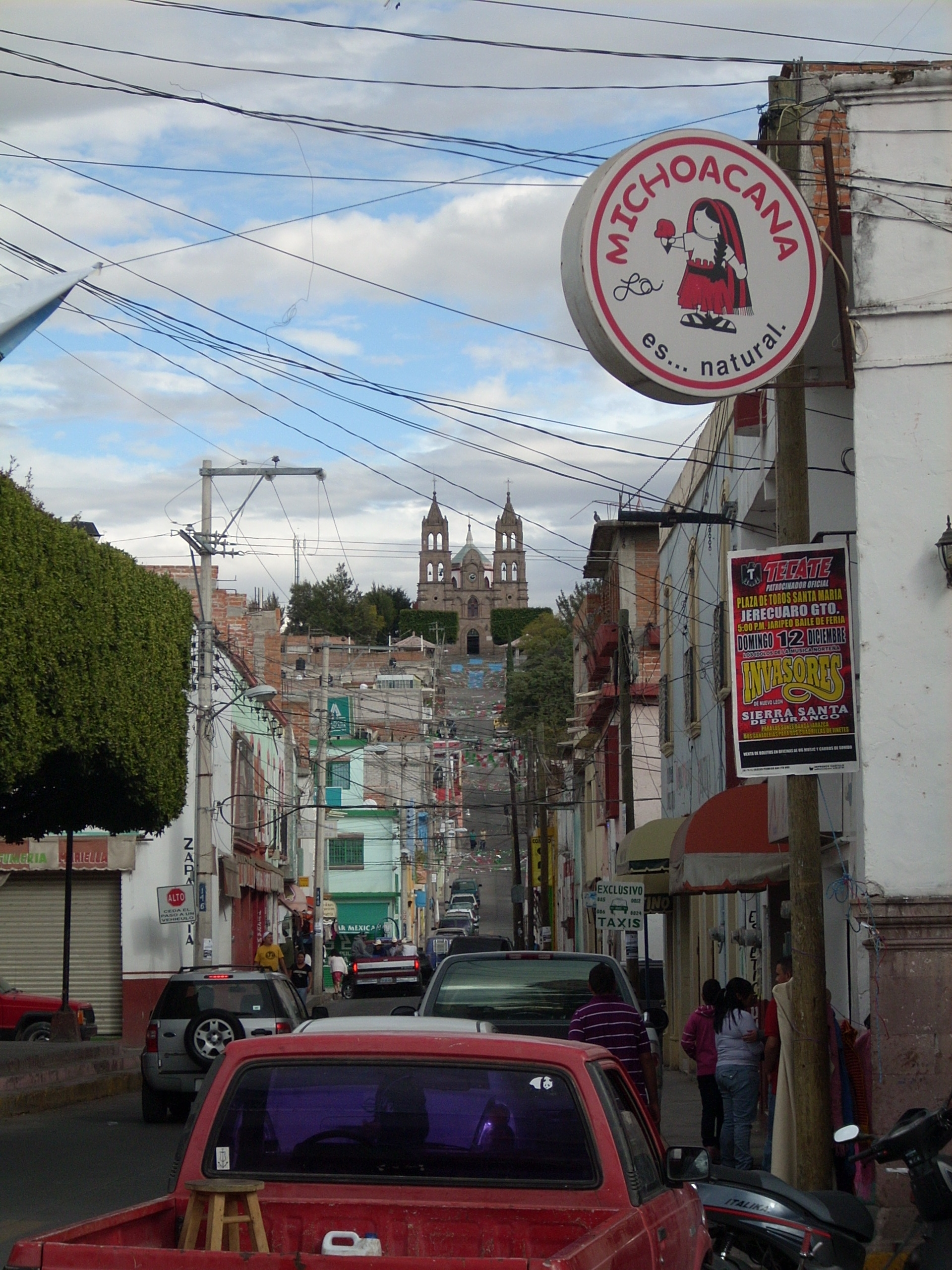 Jerécuaro, Guanajauto, Mexico. The view from the city centre along Benjamín Méndez Aguilar toward the Santuario Guadalupano on the hill of El Calvario. La Michoacana ice cream franchise on the right. Taken on New Year's Day, 2011.